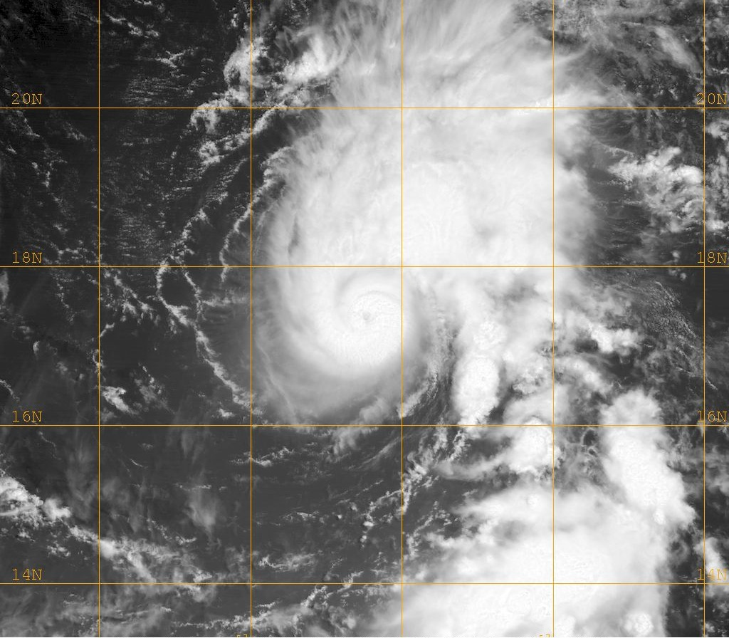 Typhoon Vamco